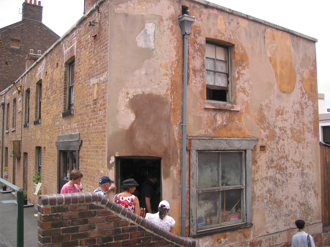 The Rocks